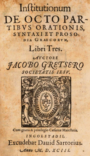 Institutiones linguae graecae